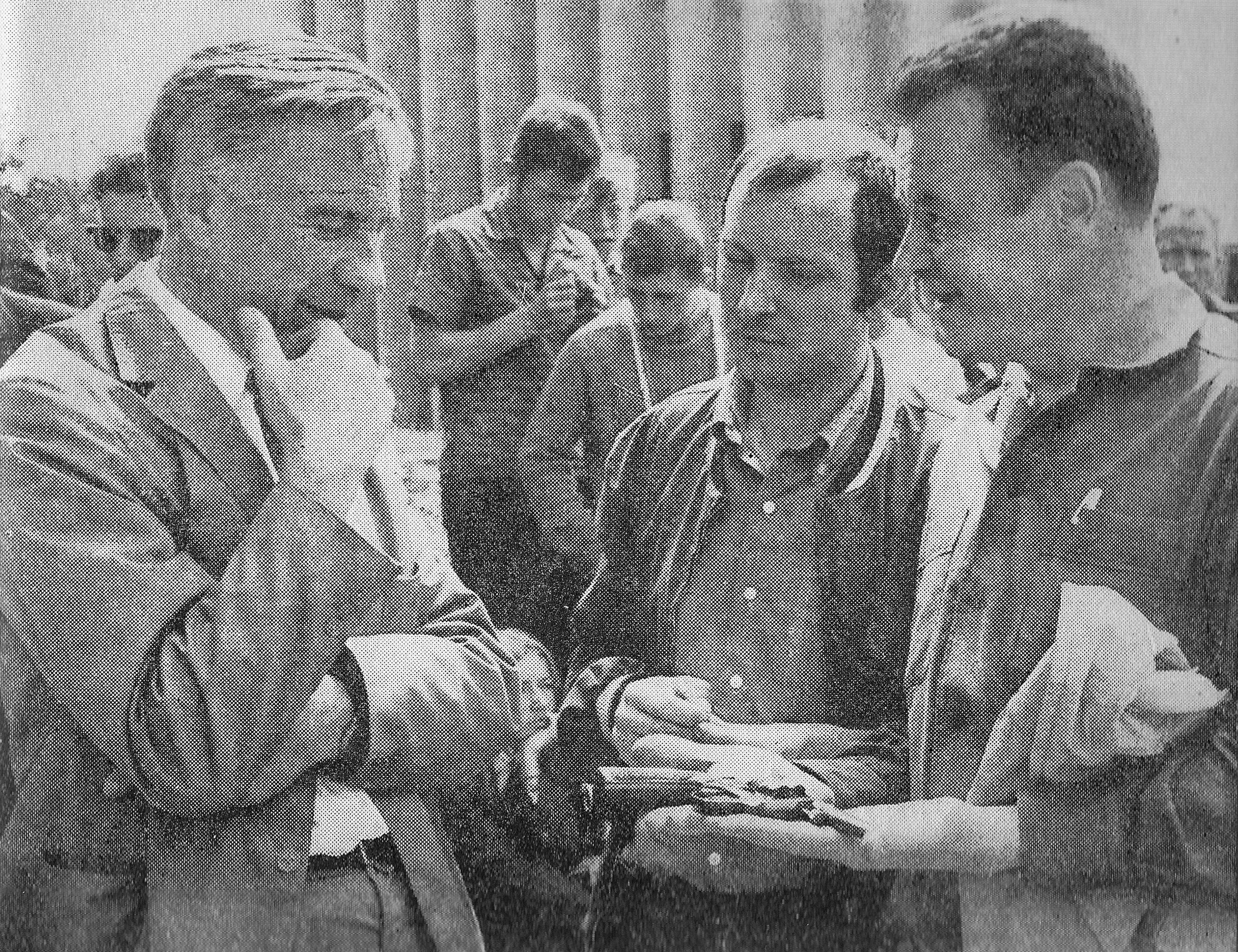 Stanisław Broniewski (left) during shooting the film "Strzały pod Arsenałem". Jerzy Wolen, film director, first from the right